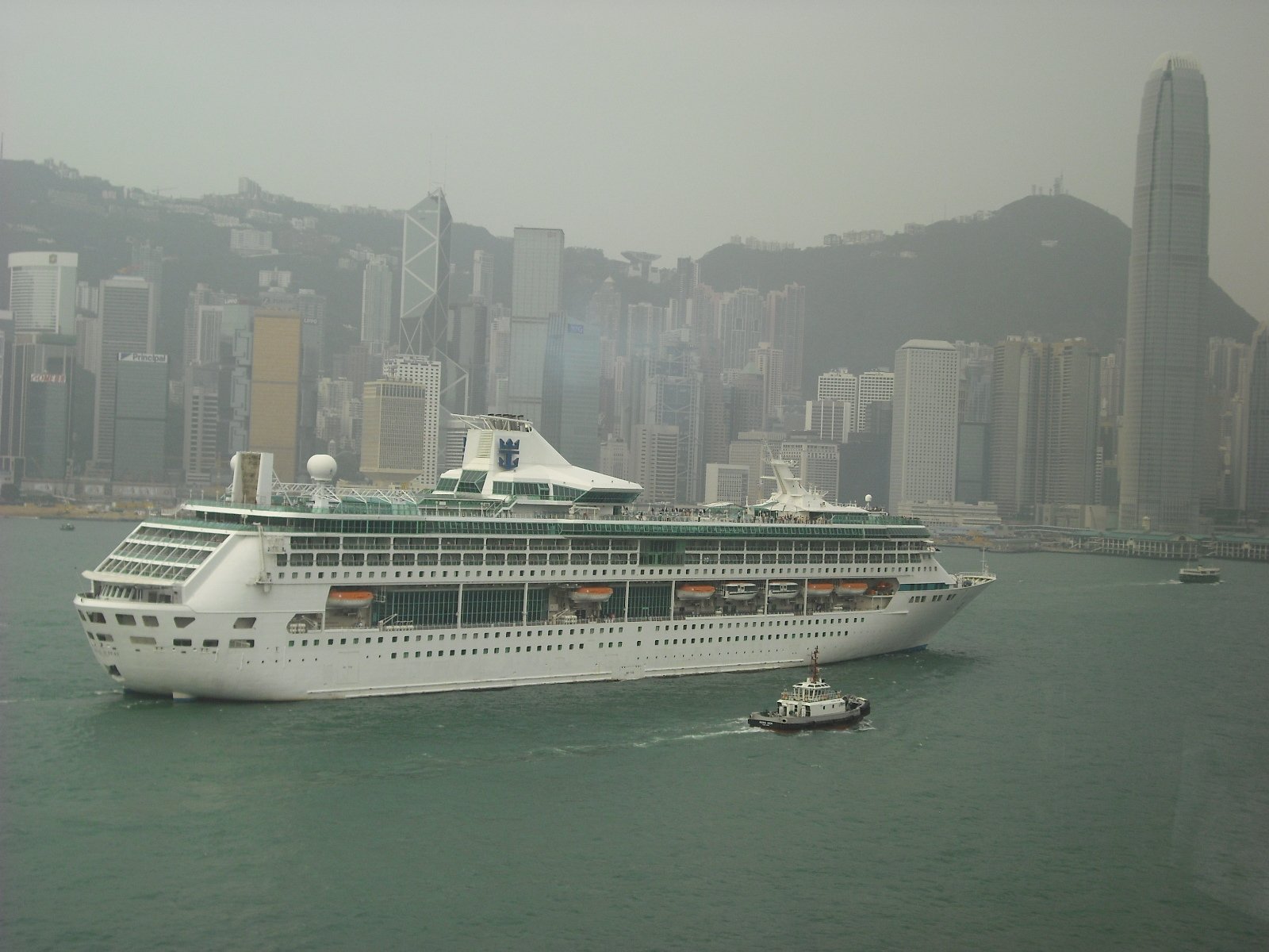 Legend of the Seas, Royal Caribbean International. Victoria Harbour, Hong Kong.